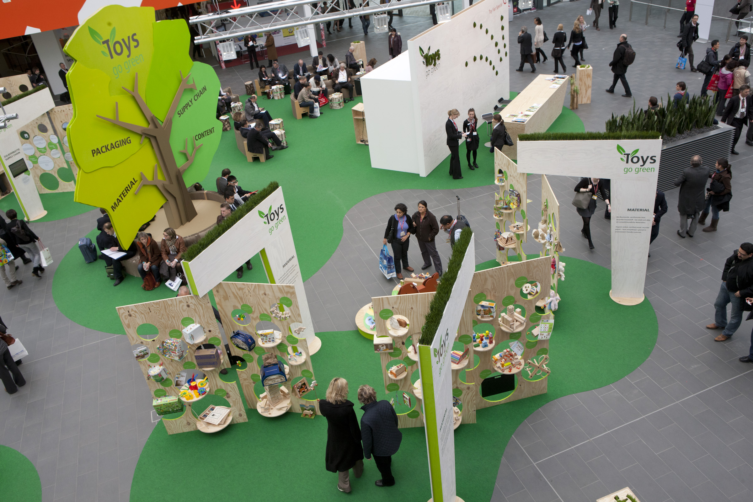 Toy Fair Special: Toys go green!